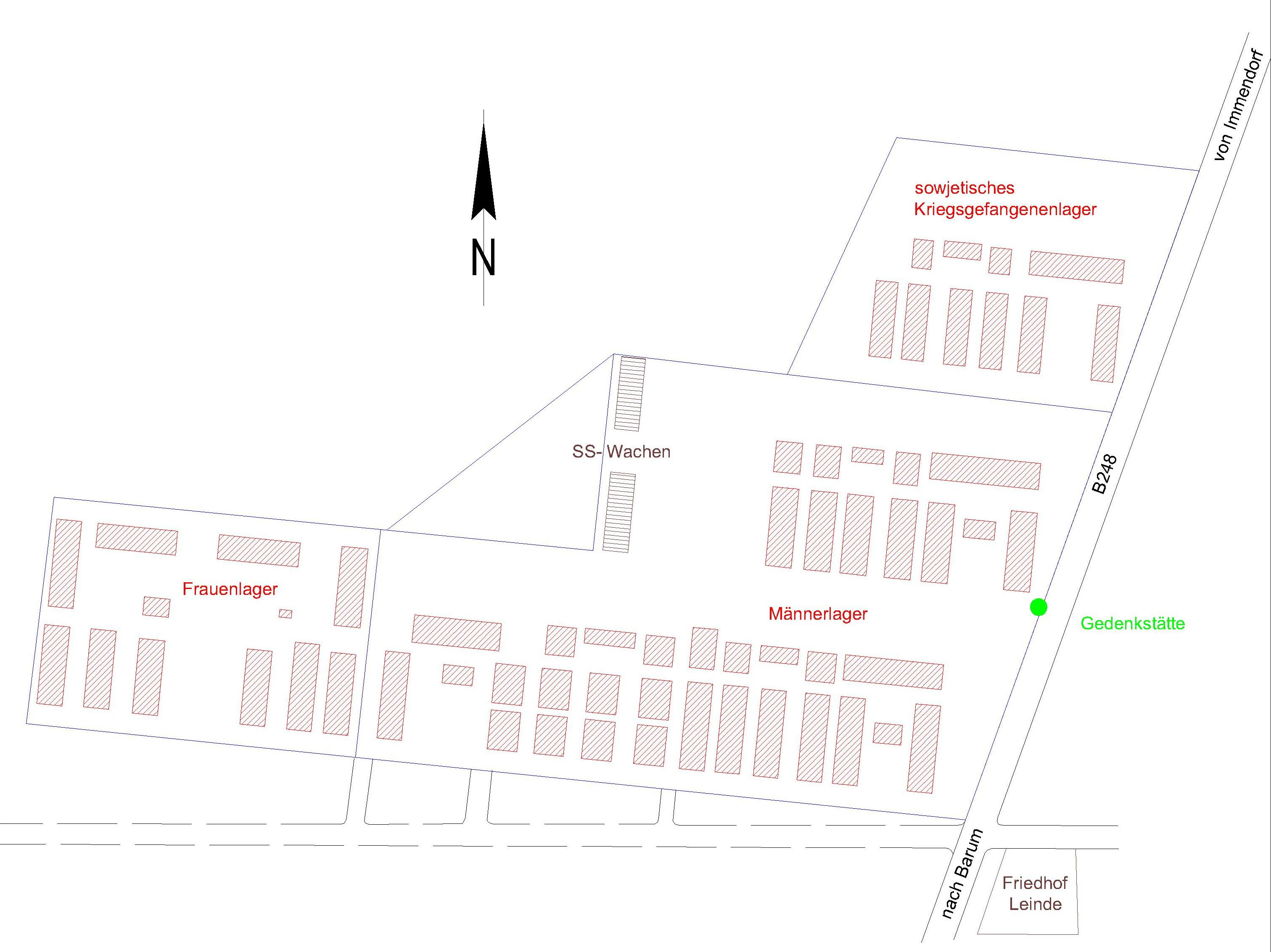 Nazi concentration camp Salzgitter-Watenstedt, situation plan. Bundesstrasse B248 near Salzgitter-Leinde, Salzgitter, Lower Saxony, Germany.